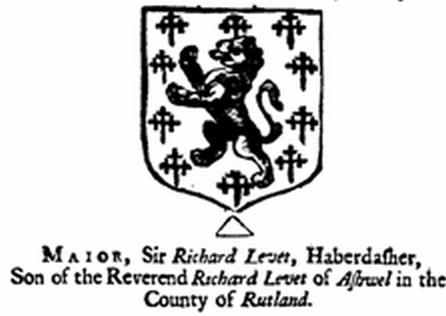 Coat-of-arms of "Mayor, Sir Richard Levet, Haberdasher, Son of the Reverend Richard Levet of Ashwell in the County of Rutland." John Strype's 'Survey of London" online. Published 1720, London.